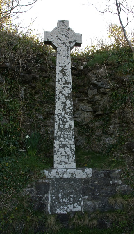 Dunollie Castle, Oban, Argyll and Bute, Scotland. Celtic cross commemorating Alexander James MacDougall (died 1953) and his wife Colina Edith (died 1963).